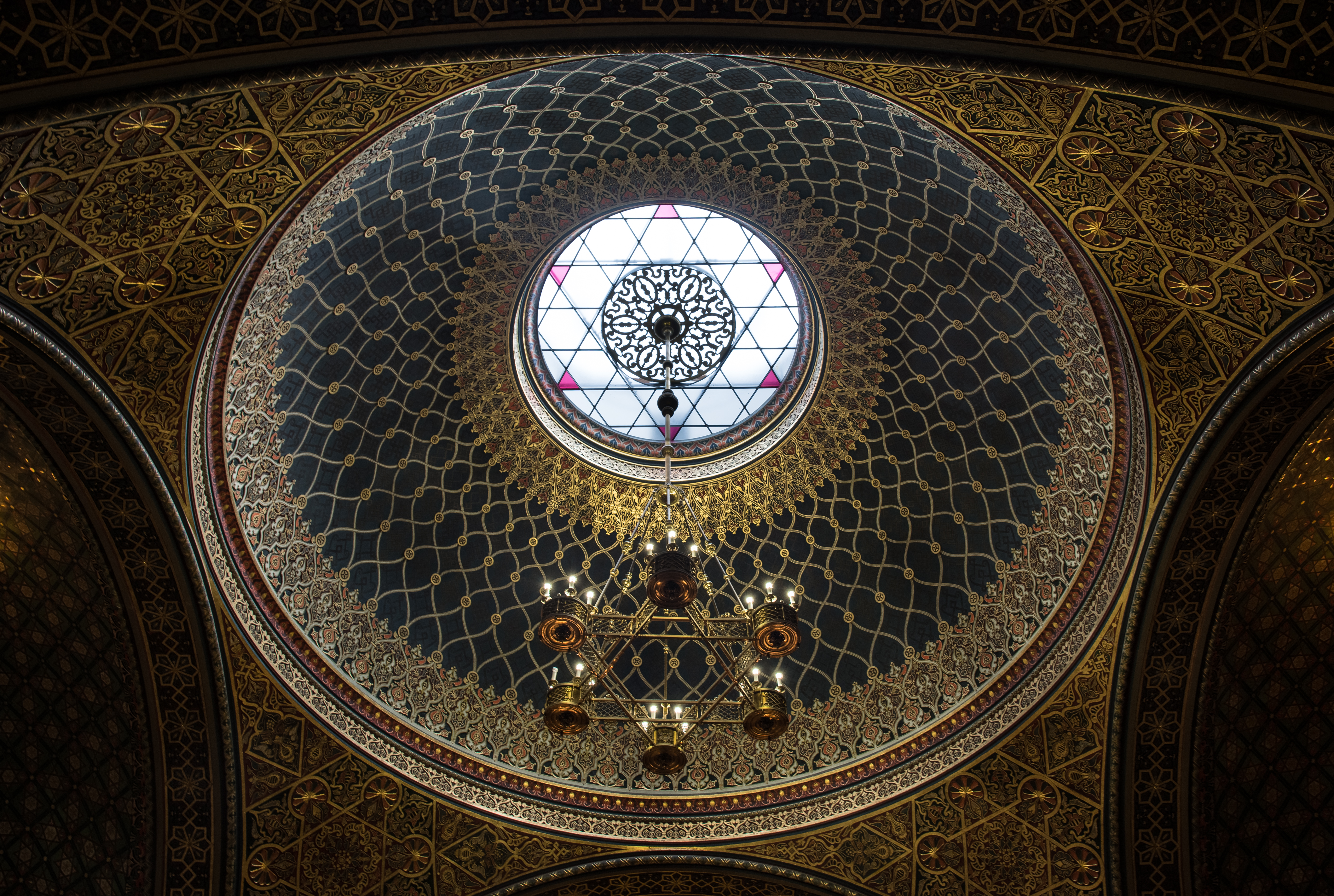 Dome of the Spanish Synagogue (in Czech Španělská synagoga) in Josefov, Prague, Czech Republic